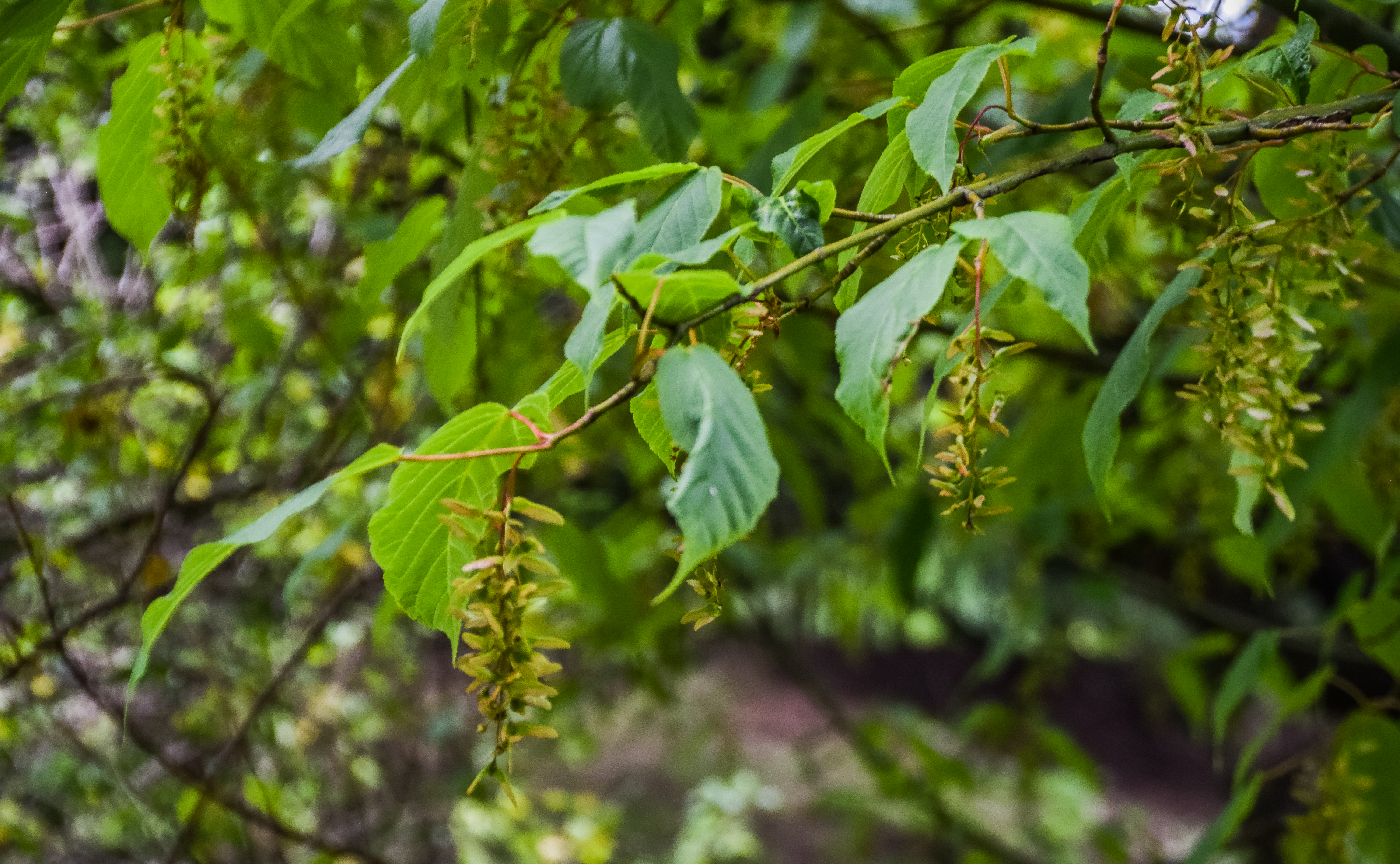 Acer davidii in Hackfalls Arboretum, Gisborne Region, New Zealand